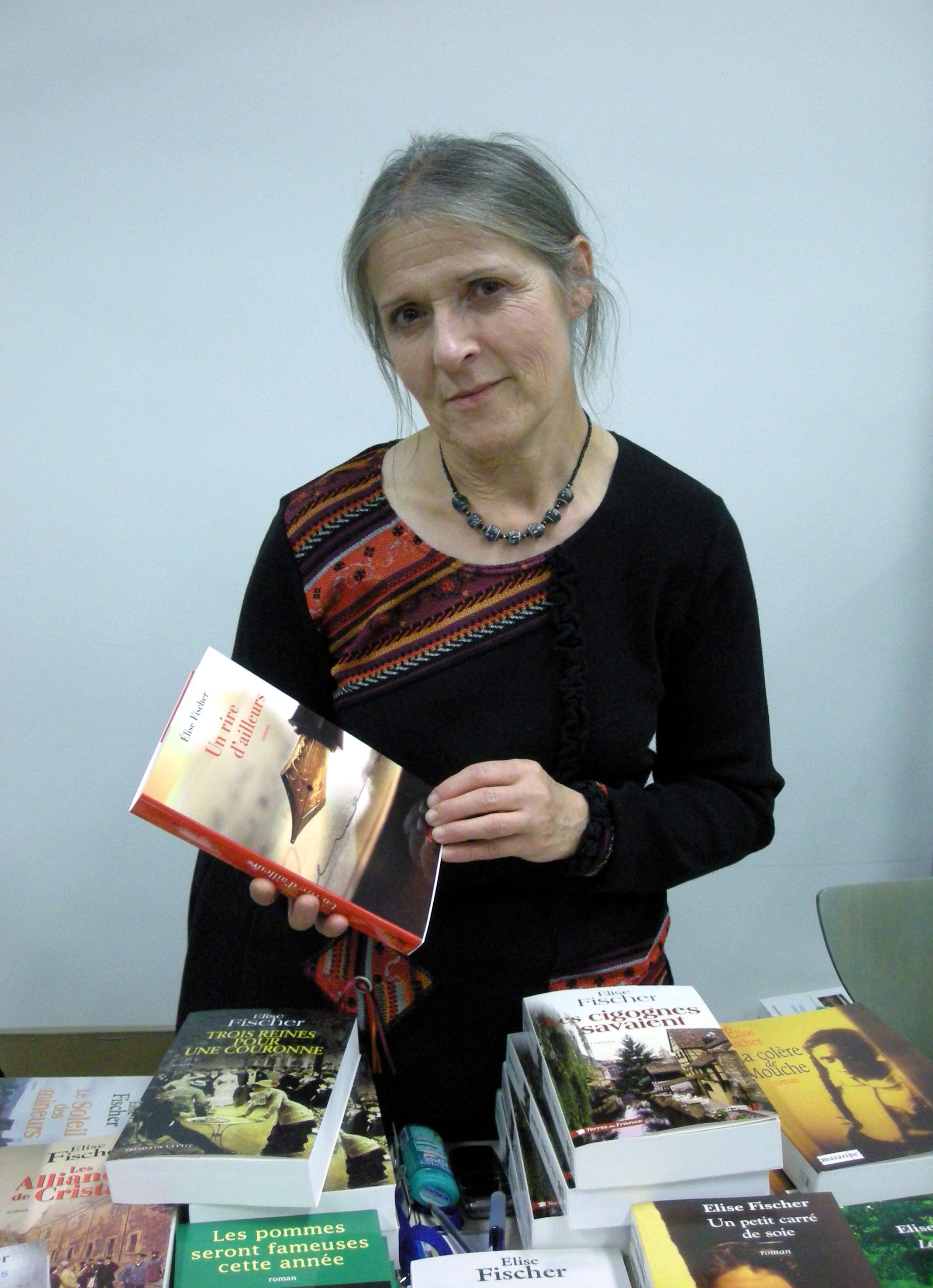 French writer Elise Fischer at the 19th International Festival of Geography held in Saint-Dié-des-Vosges in October 2008